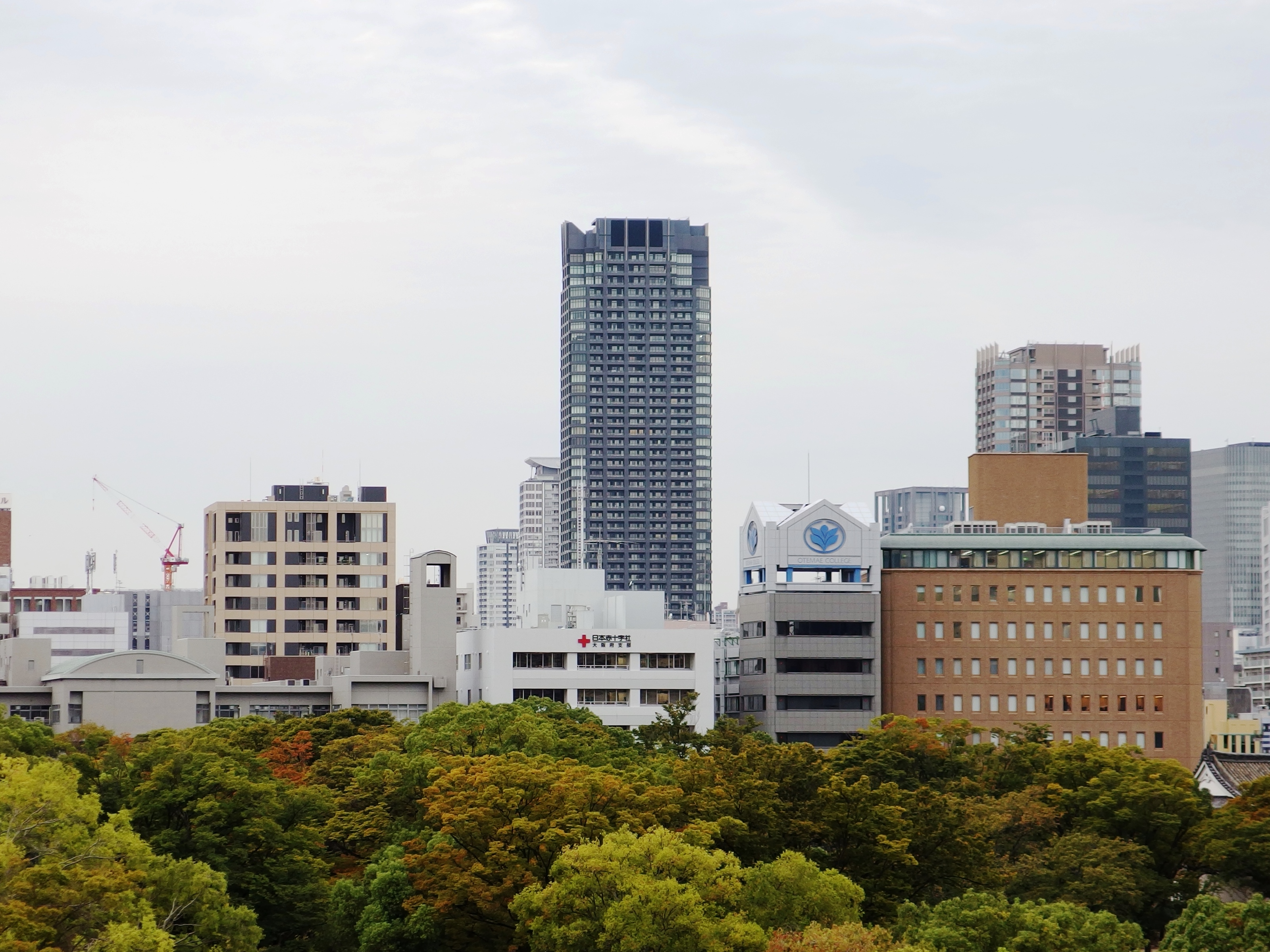 The Kitahama in Osaka, Osaka Prefecture, Japan